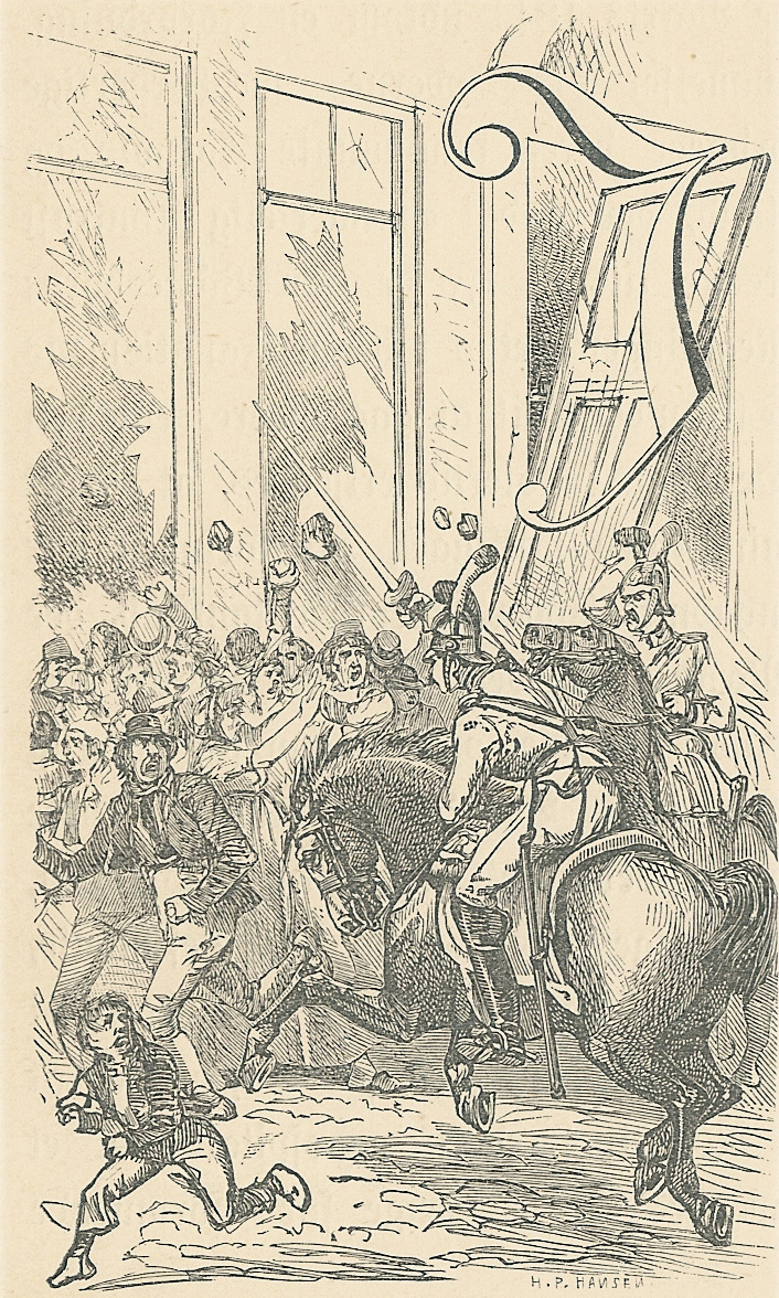 Scene from the antisemitic riots in Copenhagen september 1819. The mob is throwing rocks at the clothes shop owned by the brothers Raphael in Østergade, while the husars are charging.